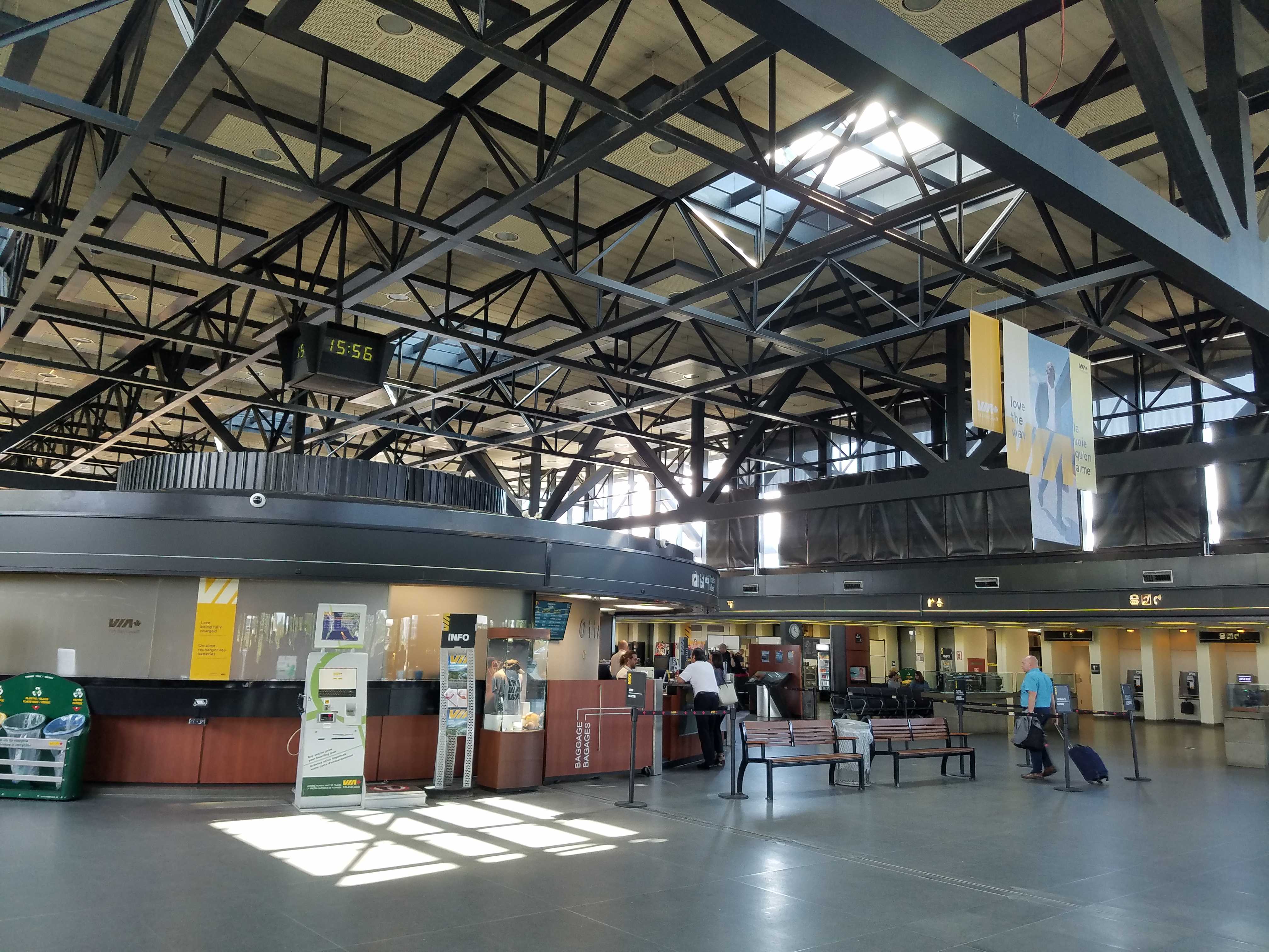 Interior view of station, showing ceiling, ticket kiosk, VIA marketing material, and waiting area.